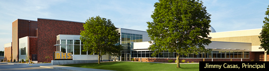 Bettendorf High School - Main Entrance